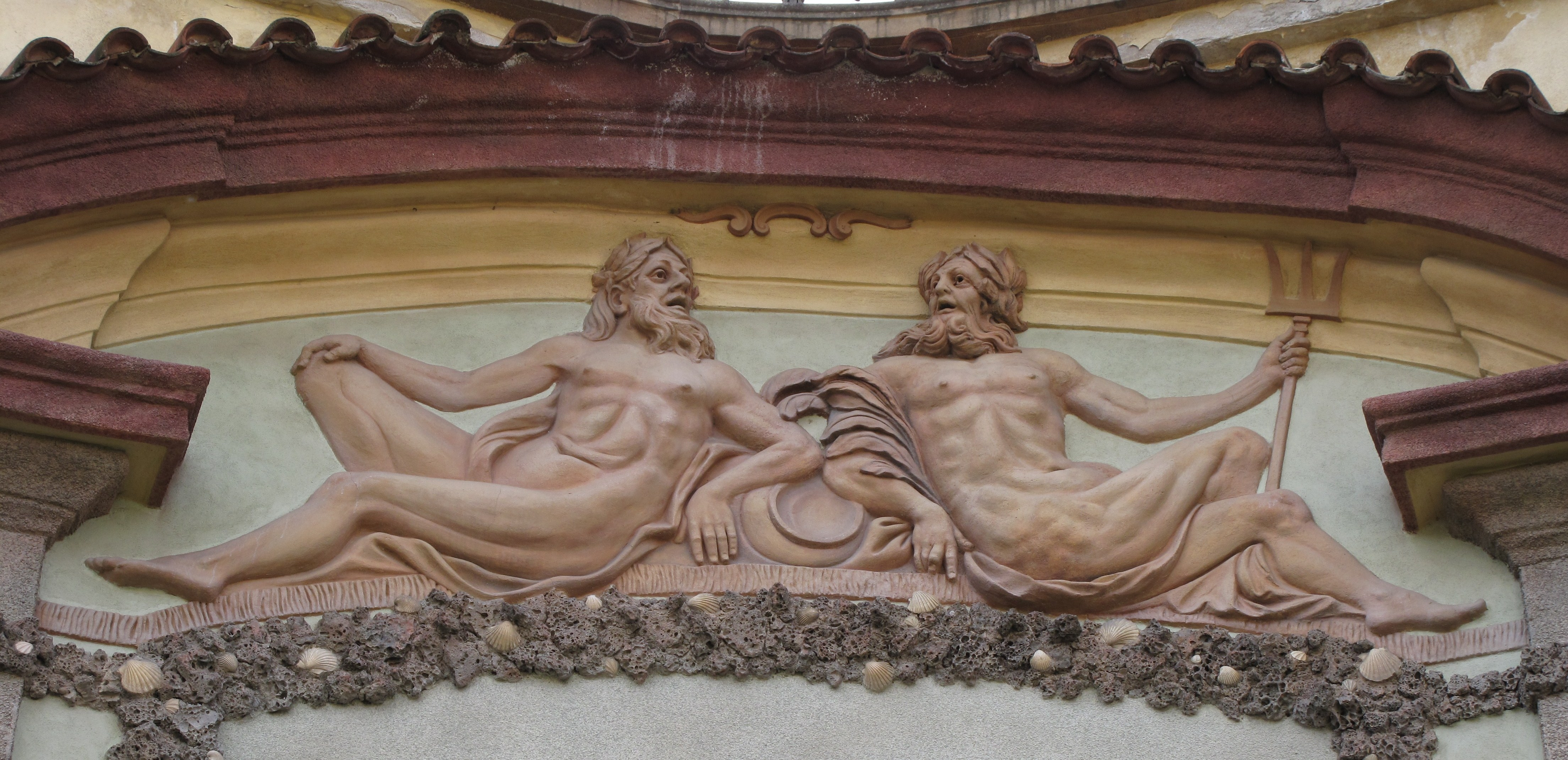 Vrtba Garden, tritons on theatron, Prague, Lesser Quarter, Czech Republic.